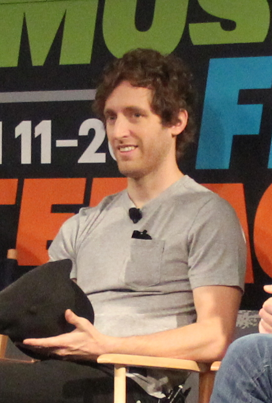 Thomas Middleditch at "SILICON VALLEY: Making the World a Better Place", a panel starring the cast and creators of Silicon Valley (TV series) at SXSW 2016.